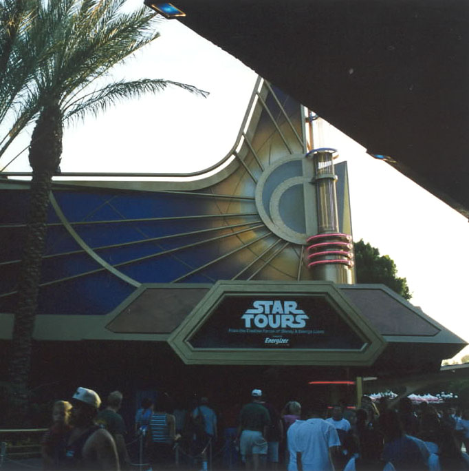 Star Tours entrance 1998 Disneyland Taken by Ellen Levy Finch (User:Elf)